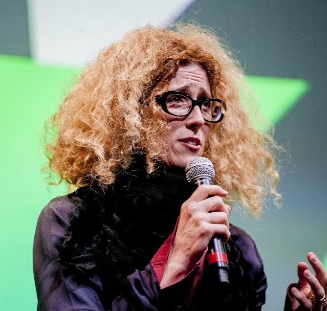 Kali Nikitas at TYPO San Francisco 2014.